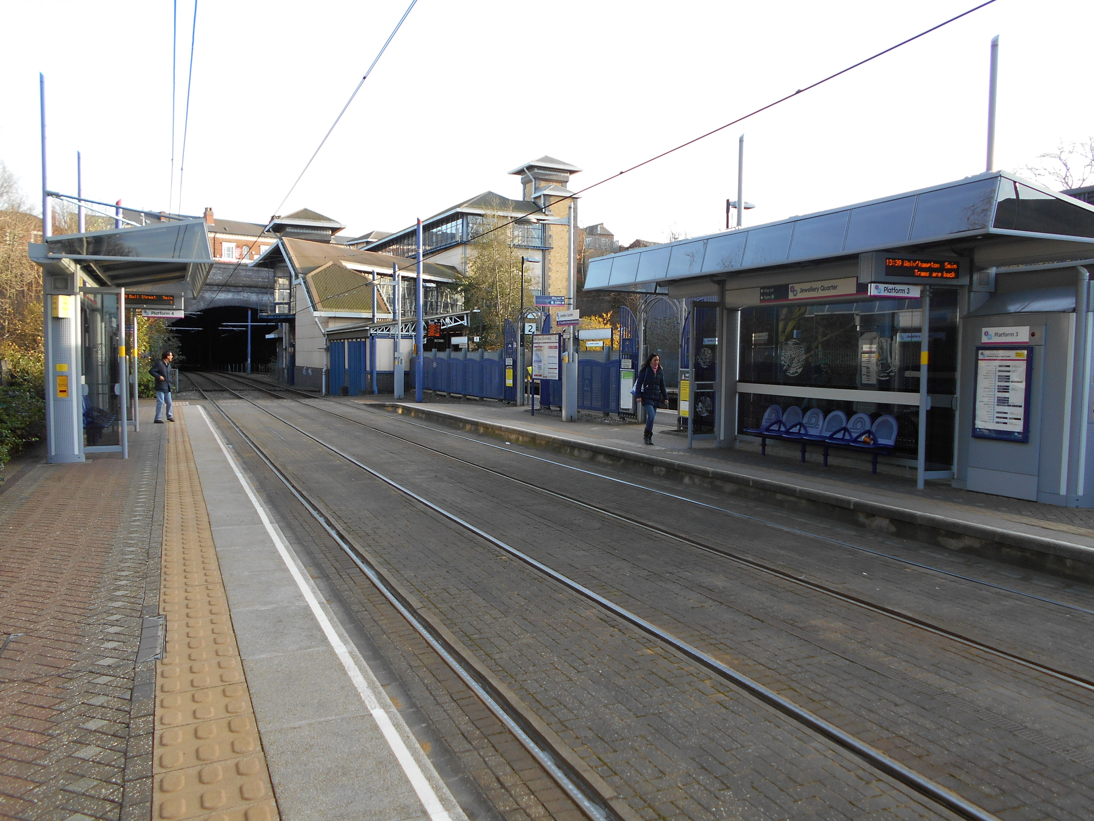 Jewellery Quarter station tram platforms.